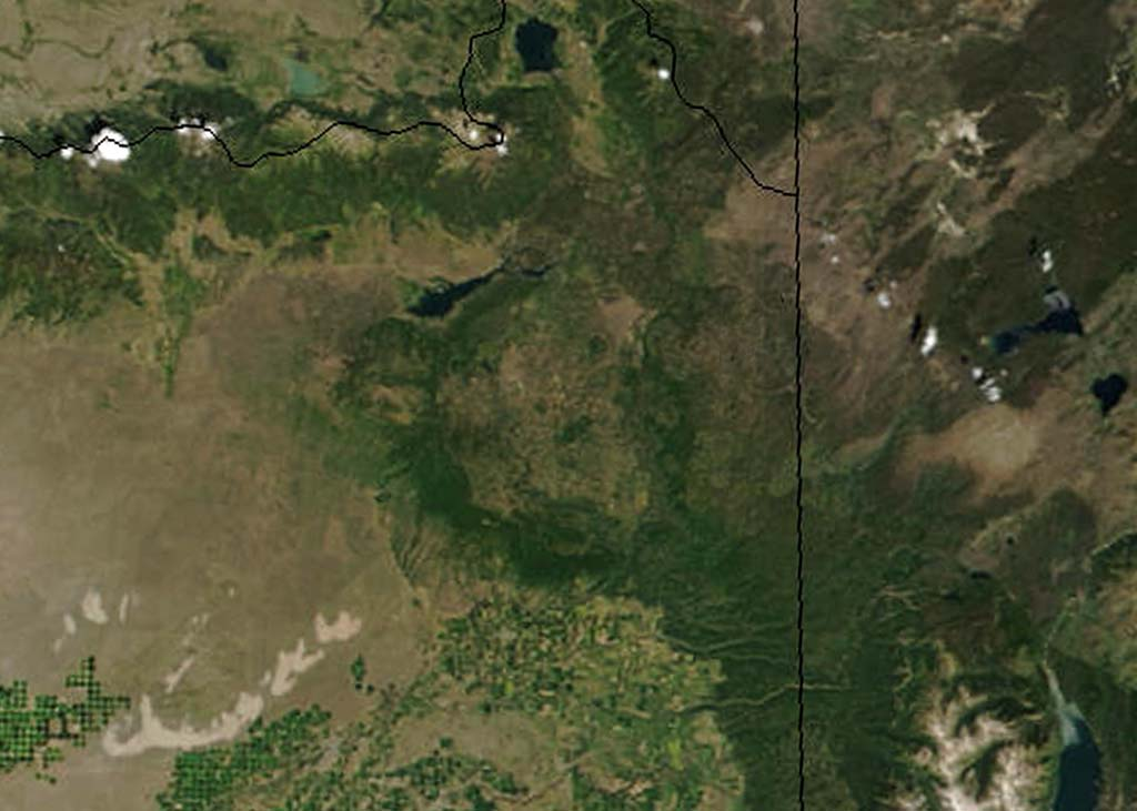 Island Park Caldera most easily recognized from space. The Teton Range is visible to the southeast. Photo courtesy of NASA.